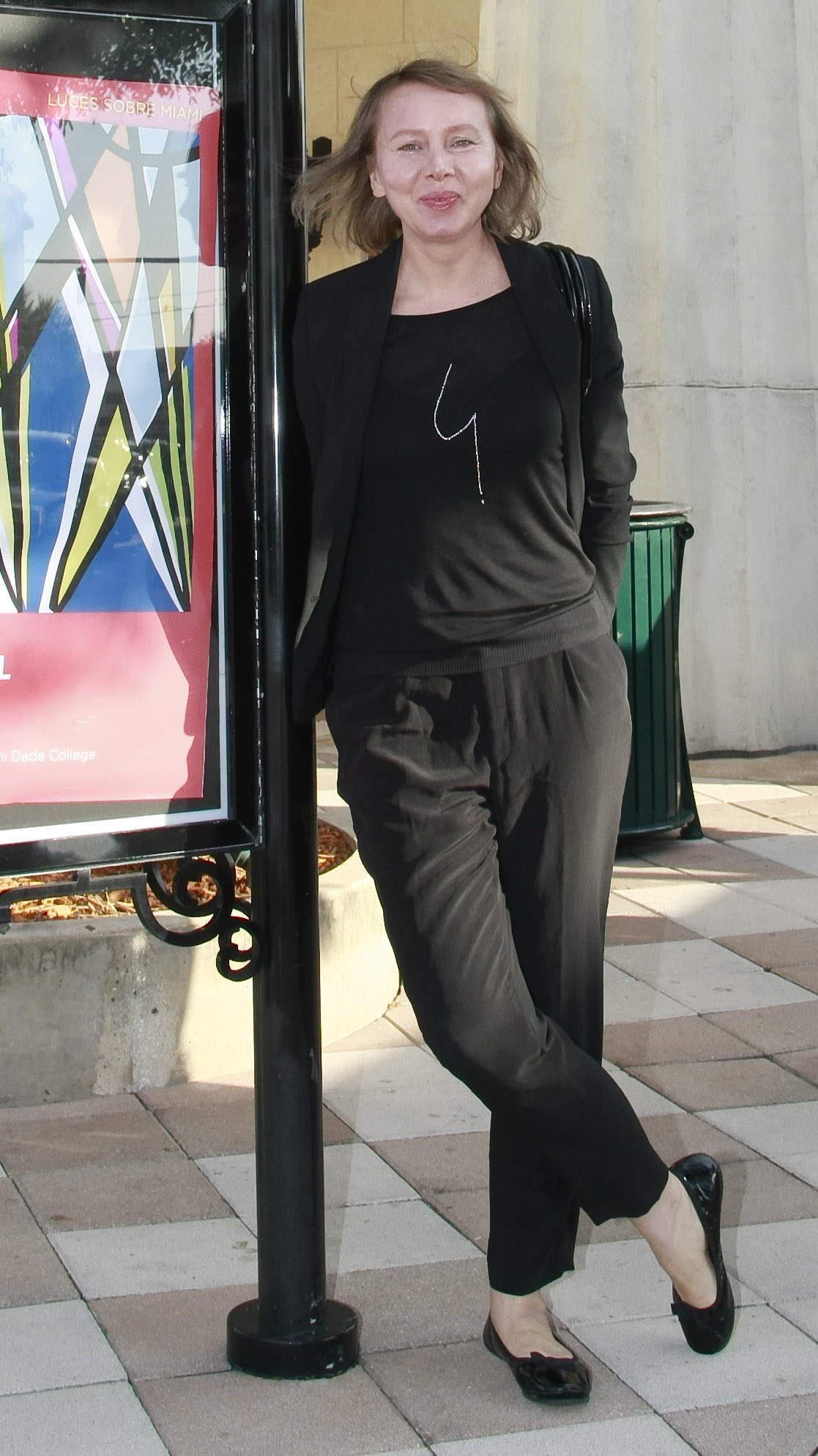 Code Blue director Urszula Antoniak at the 2012 Miami International Film Festival at the Coral Gables Art Cinema